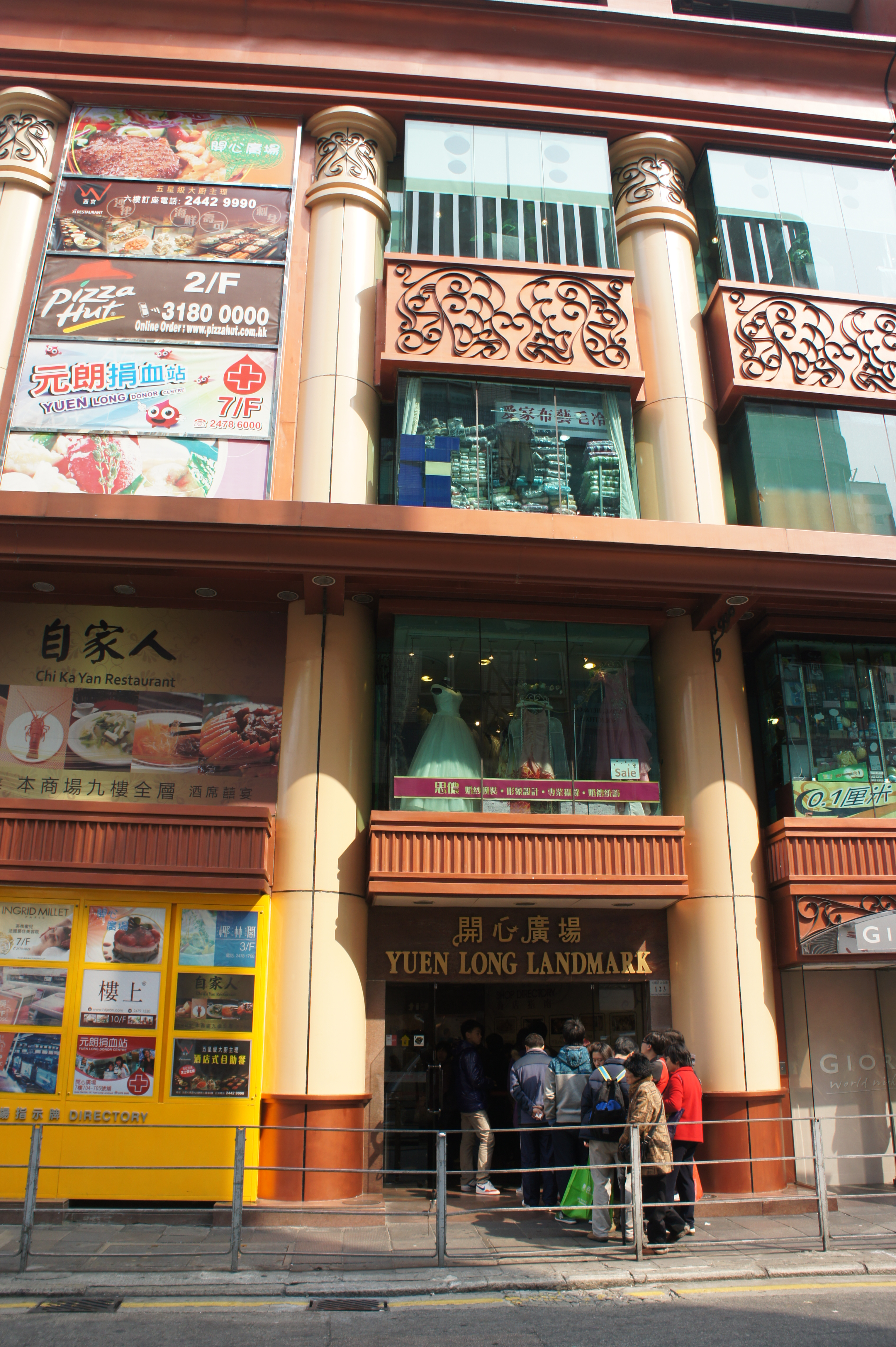 Yuen Long Landmark, New Territories, Hong Kong. Entrance on Tung Lok Street.